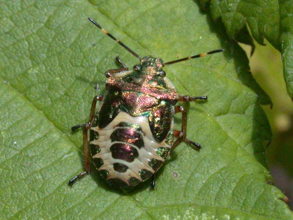 Troilus luridus (Heteroptera : Pentatomidae) nymph. Cambridge, England.